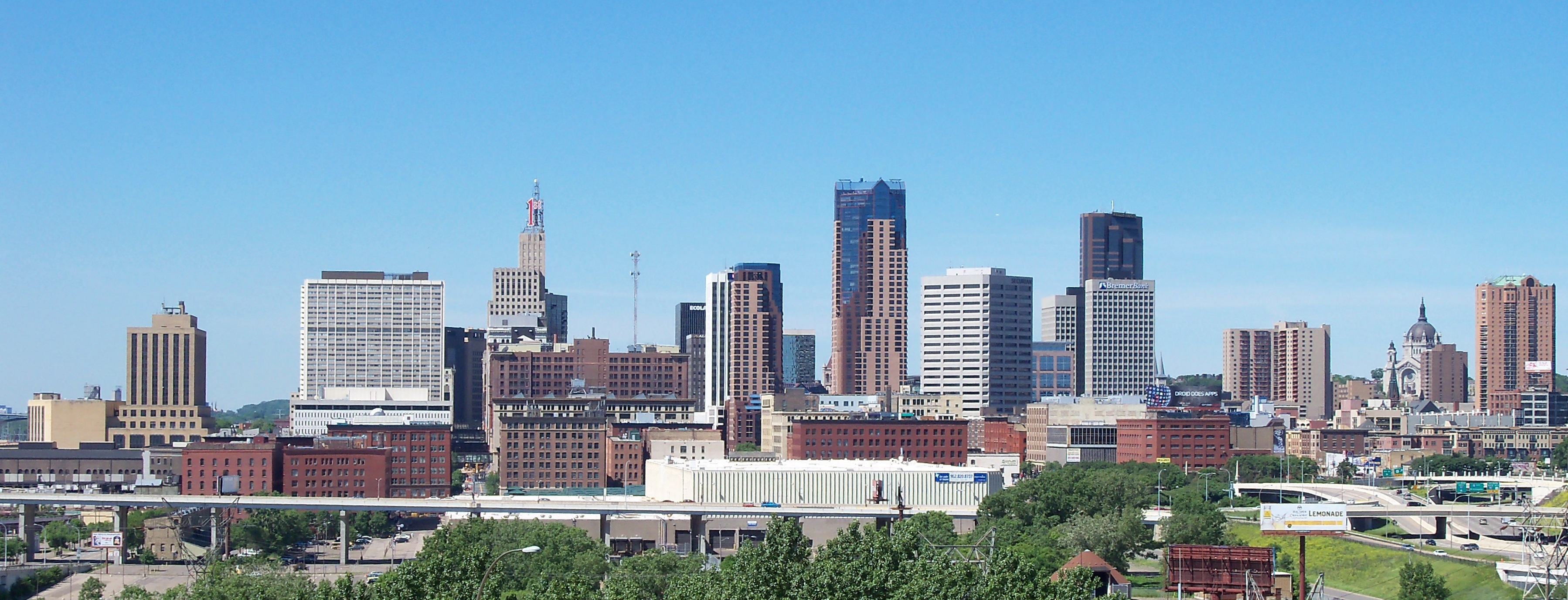 Downtown St. Paul, Minnesota, USA. Looking west.